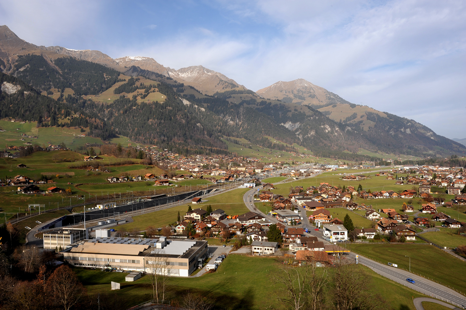 View to Frutigen from the Tellenburg; north entrance of the Lötschberg Base Tunnel on the left; Berne, Switzerland.